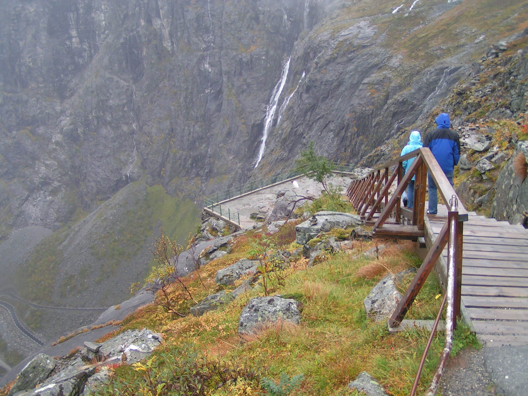 This is a picture of the viewing platform on the Trollstiegen I made by myself.